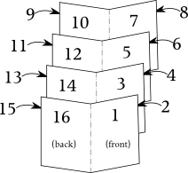 Folding a page folio style, four pages togethe